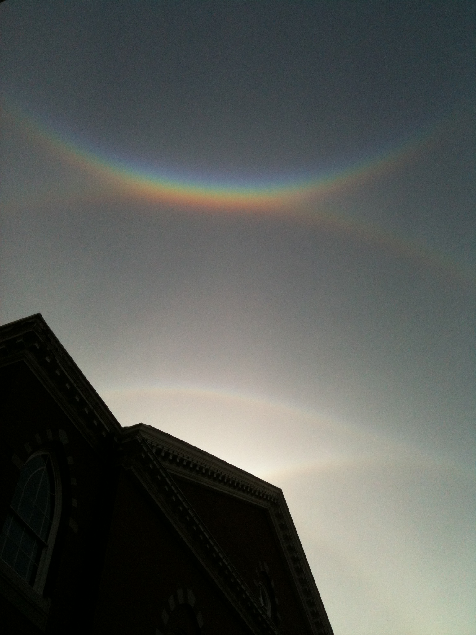 Circumzenithal arc, supralateral arc, Parry arc, and upper tangent arc, in Salem, Massachusetts, Oct 27, 2012. The Daniel Low building is in the foreground.